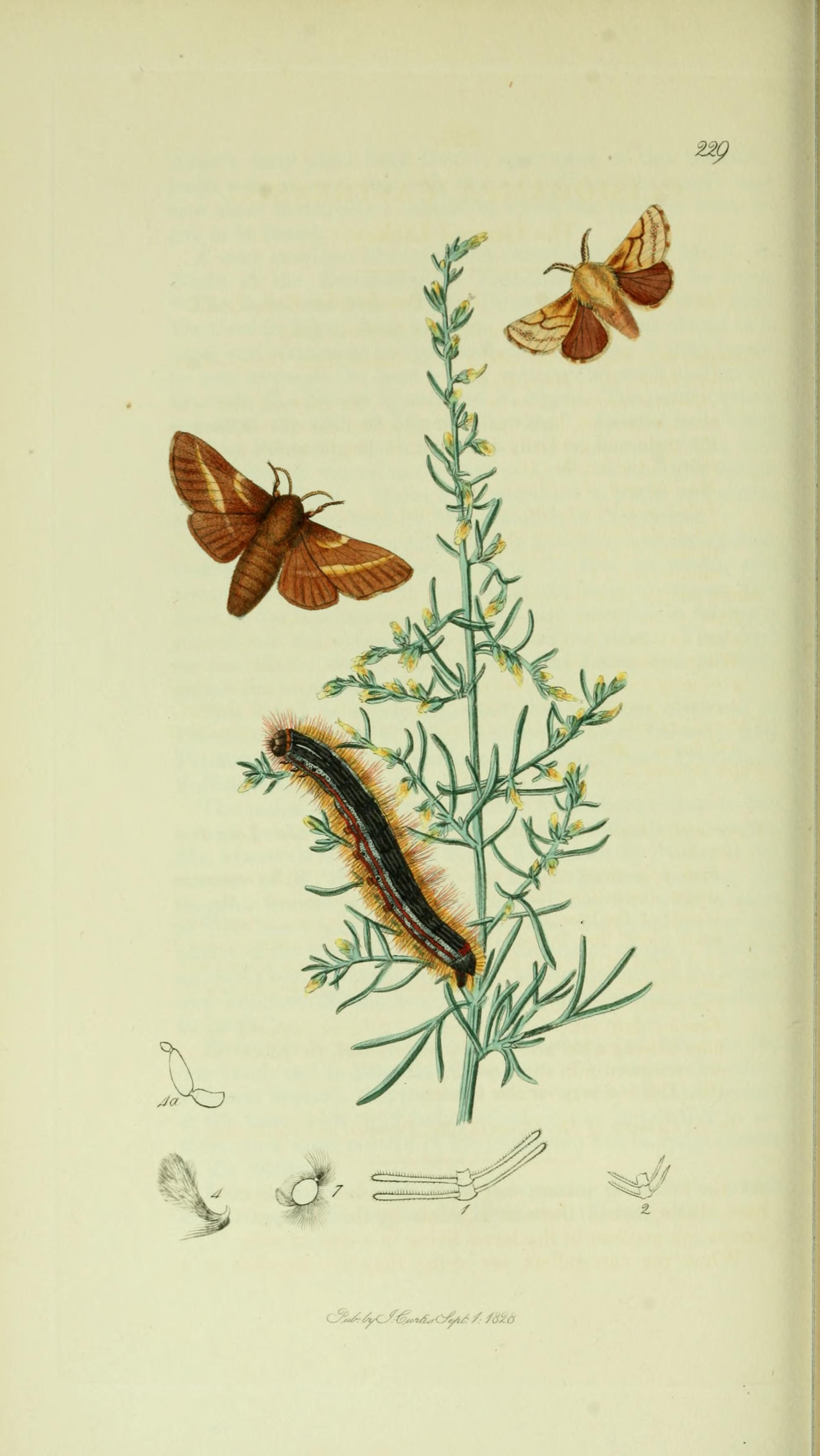 An illustration from British Entomology by John Curtis. Clisiocampa castrensis or Malacosoma castrensis = castrense (Ground Lackey).